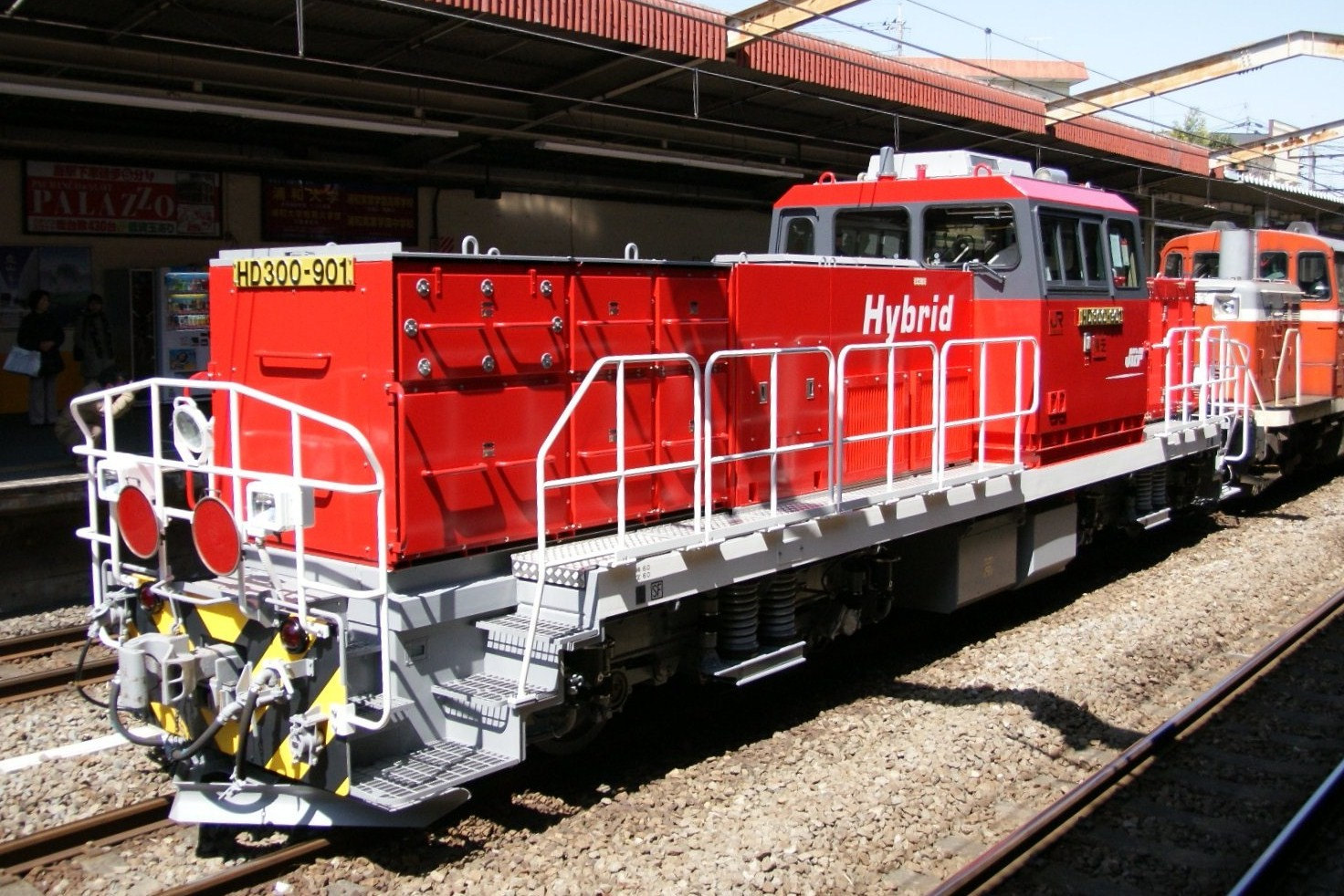 JR Freight prototype hybrid diesel/electric class HD300 locomotive number HD300-901 at Shin-Akitsu Station on delivery from Toshiba to Tokyo Freight Terminal